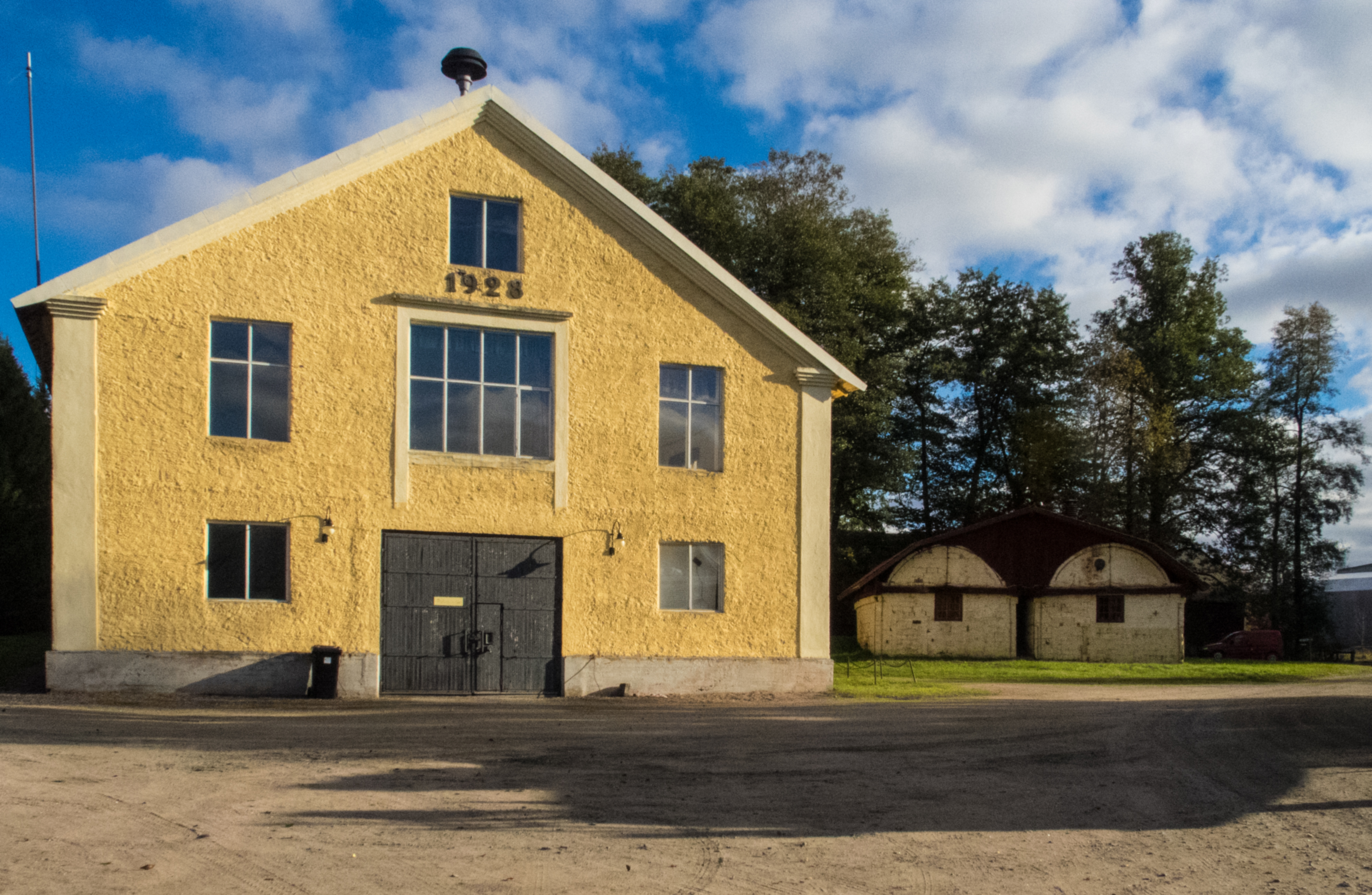 Buildings on waterfront, Teijo, Perniö, Salo, Finland.